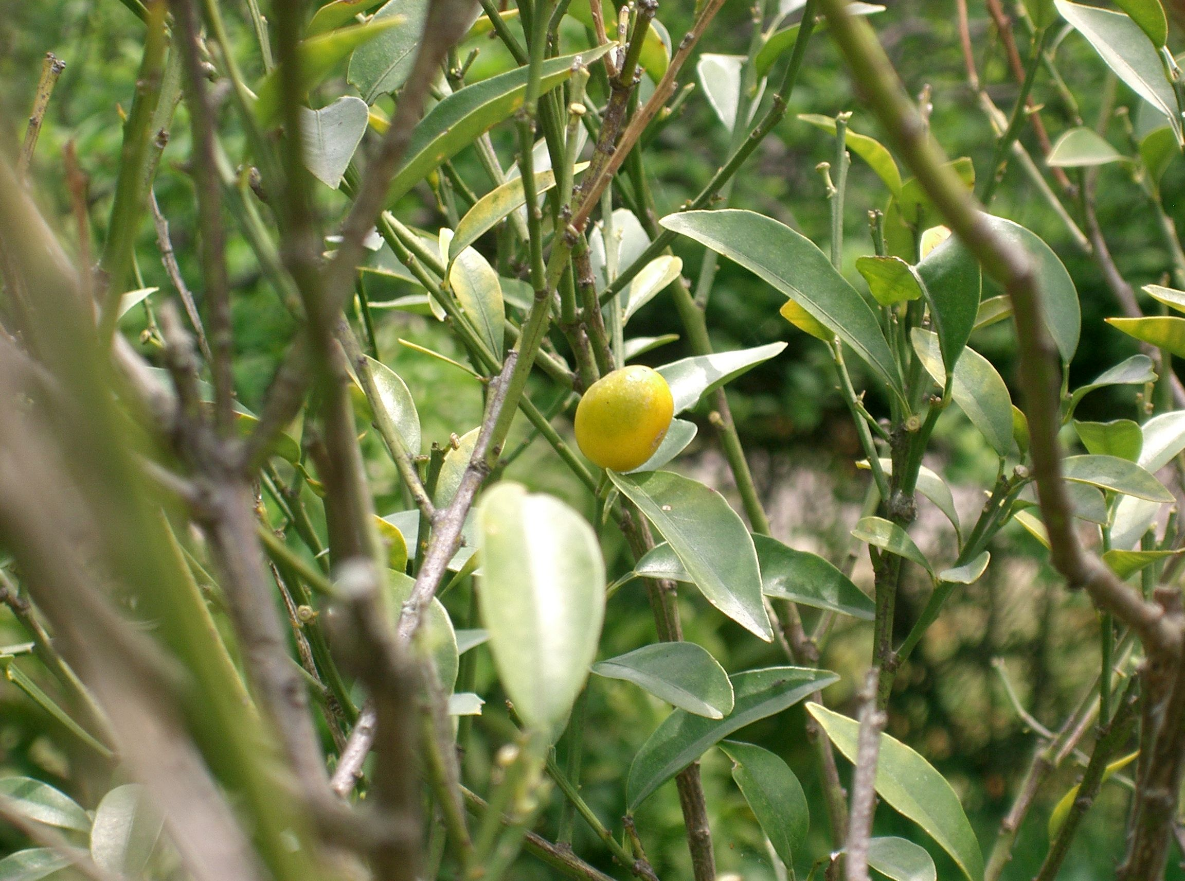 Fruit and foliage of Fortunella japonica, syn: Citrus japonica, the Kumquat - in Osaka-fu, Japan.